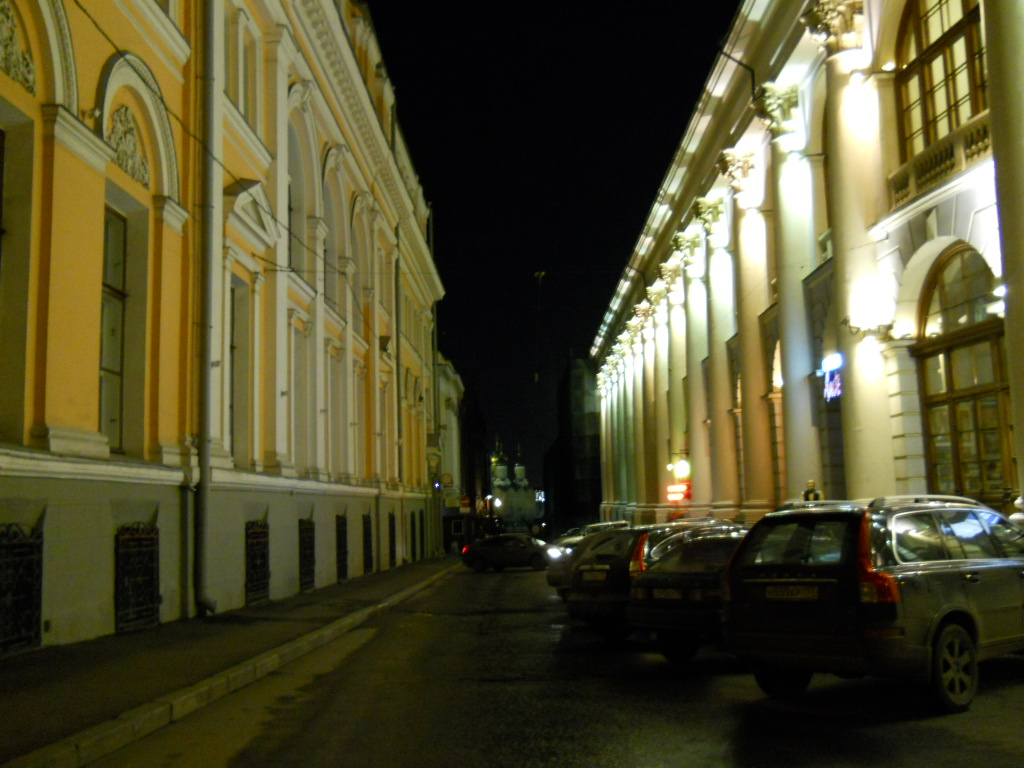 Moscow, Rybny Lane by night